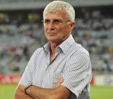 picture i took from the stand